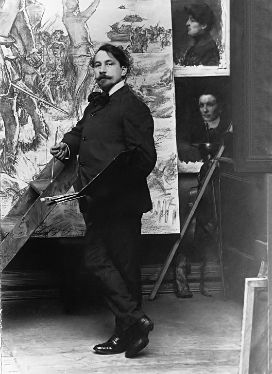 Photograph, Marc-Aurèle de Foy Suzor-Côté in his studio, QC, copied 1917, Anonymous, Silver salts on glass - Gelatin dry plate process, 25 x 20 cm